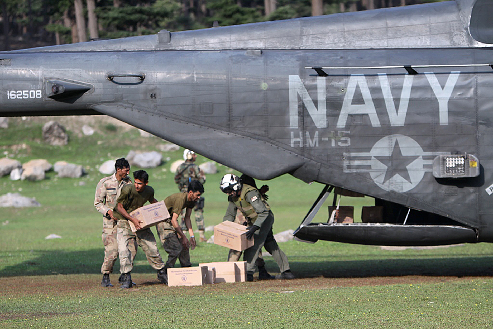 KHYBER-PAKHTUNKHWA, PROVINCE, Pakistan (Aug. 21, 2010) U.S. Navy air crew assigned to Helicopter Mine Countermeasures Squadron (HM) 15, Detachment 2, help Pakistani Soldiers load relief supplies aboard a U.S. Navy MH-53E Sea Dragon during humanitarian relief efforts. HM-15 is embarked aboard the amphibious assault ship USS Peleliu (LHA 5) supporting the Pakistan government and military with heavy lift capabilities in flooded regions of Pakistan. (U.S. Navy photo by Capt. Paul Duncan/Released)